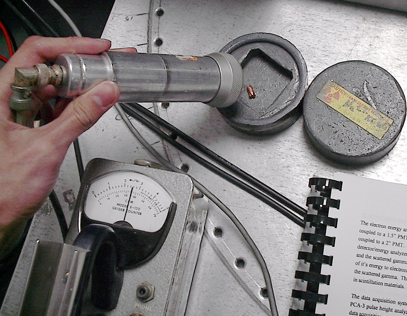 Using a geiger counter to measure radioactive emissions from a sample of Sodium 22. Taken by L. Chang, 3-1-2004.